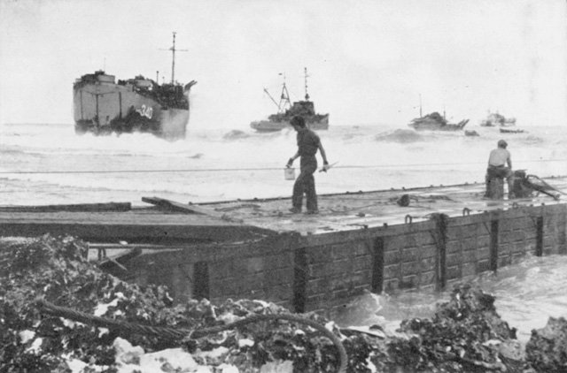 LST-340 stranded on "White Beach" at Tinian, circa 21 June to 13 August 1944. US Navy photo.